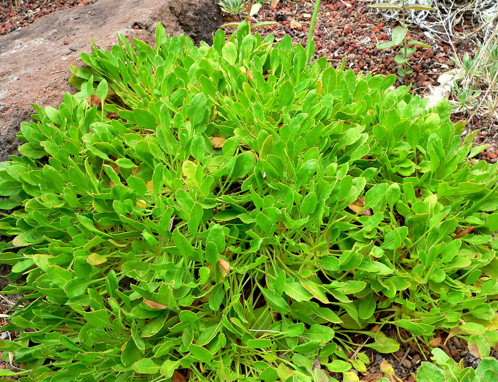 Photo of Eriogonum hirtellum at the Regional Parks Botanic Garden